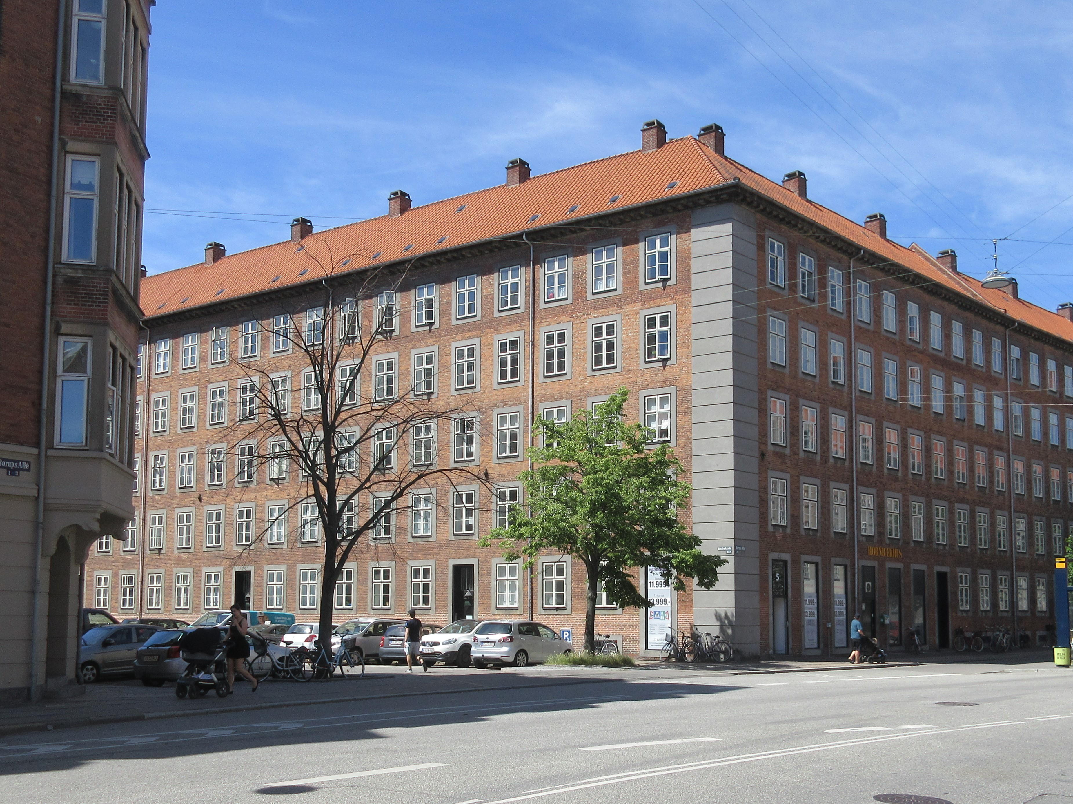 Hornbækhus in Copenhagen, Denmark